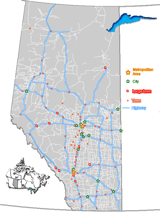 Map od Alberta with cities, towns and roads